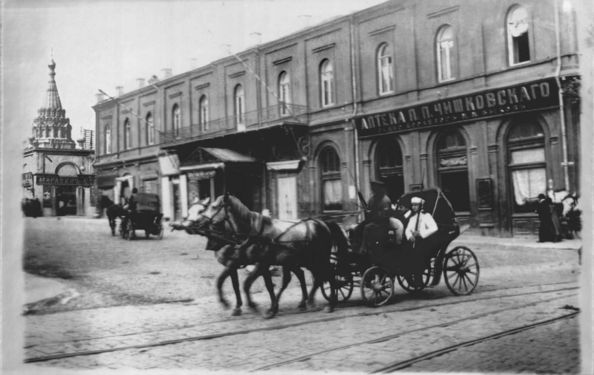 Hotel Metropol in Baku, today Nizami museum